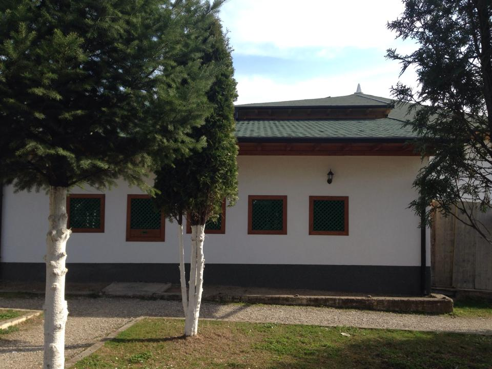 The Big Tekke